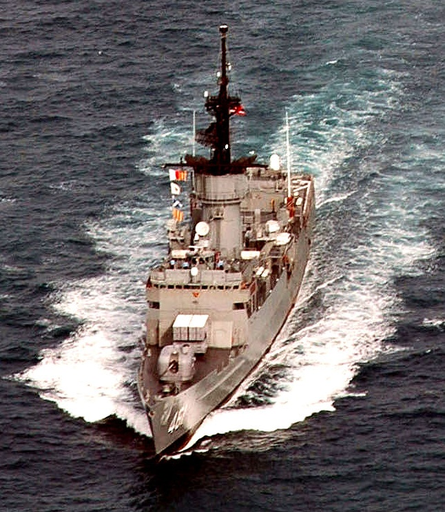 Gulf of Thailand (June 24, 2005) - The Royal Thai Navy (RTN) frigate HTMS Phutthayotfa Chulalok (FF 461) leads a formation of U.S. Navy and RTN ships that includes, in order, USS Rodney M. Davis (FFG 60), HTMS Taksin (FF 422), and HTMS Rattanakosin (FF 441). The ships were in formation together as part of the underway phase of exercise Cooperation Afloat Readiness and Training (CARAT) Thailand. CARAT is a regularly scheduled series of bilateral military training exercises with several Southeast Asia nations designed to enhance the interoperability of the respective sea services. U.S. Navy photo by Photographer's Mate 1st Class Thomas J. Brennan (RELEASED)